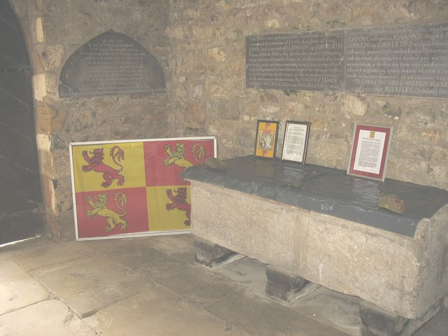 The Sarcophagus of Siwan This is the stone coffin of Joan, the daughter of an English king, (John), and the wife of a Welsh prince, (Llywelyn ap Iorwerth, Prince of North Wales). Joan, in Welsh, Siwan, died in 1237 and was buried at the Friarage at nearby Llanfaes. At the dissolution of the monasteries, Llanfaes Friary was destroyed and anything of value robbed. The coffin, minus Joan, was found in the 1800s on a farm by Viscount Bulkeley. As the farmer was intending to use it as a pig trough, Bulkeley had it conveyed to the safety of the Church of St Mary and St Nicholas at Beaumaris. The flag is that of the Royal House of Gwynedd.